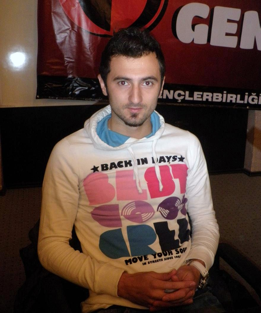 Murat Duruer, Turkish footballer at METU.